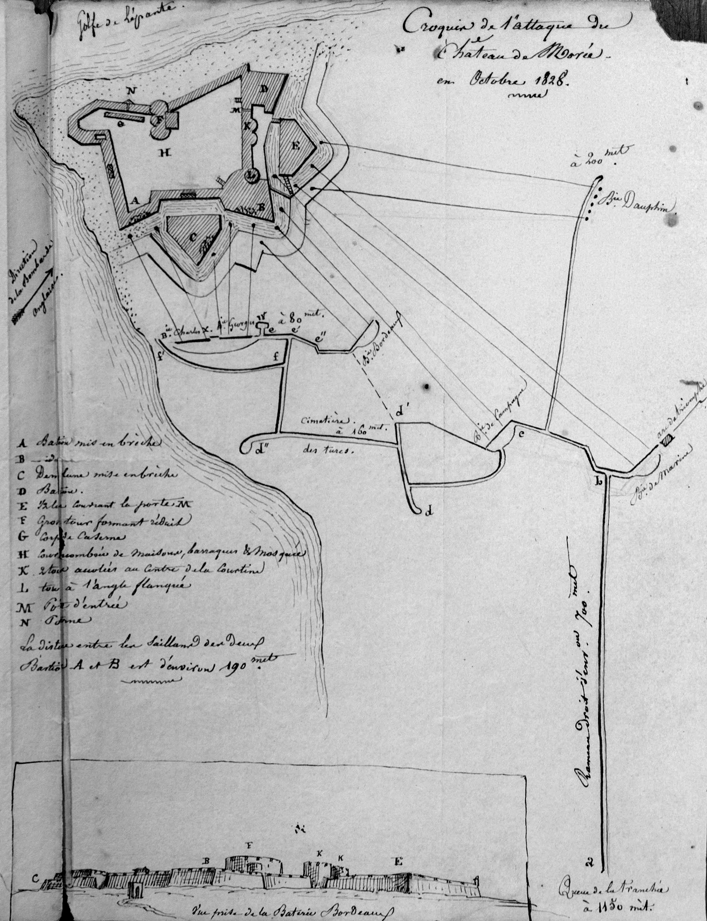 Map of the Siege of the Castle of Morea by Colonel Antoine-Charles-Félix Hecquet (54th line infantry regiment)